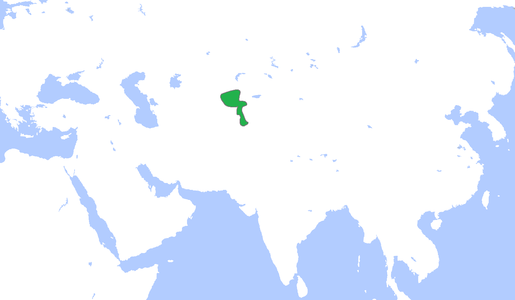 Locator map of the Khanate of Kokand, c. 1850. (Partially based on Atlas of World History (2007) - The World 1800-1850, map)